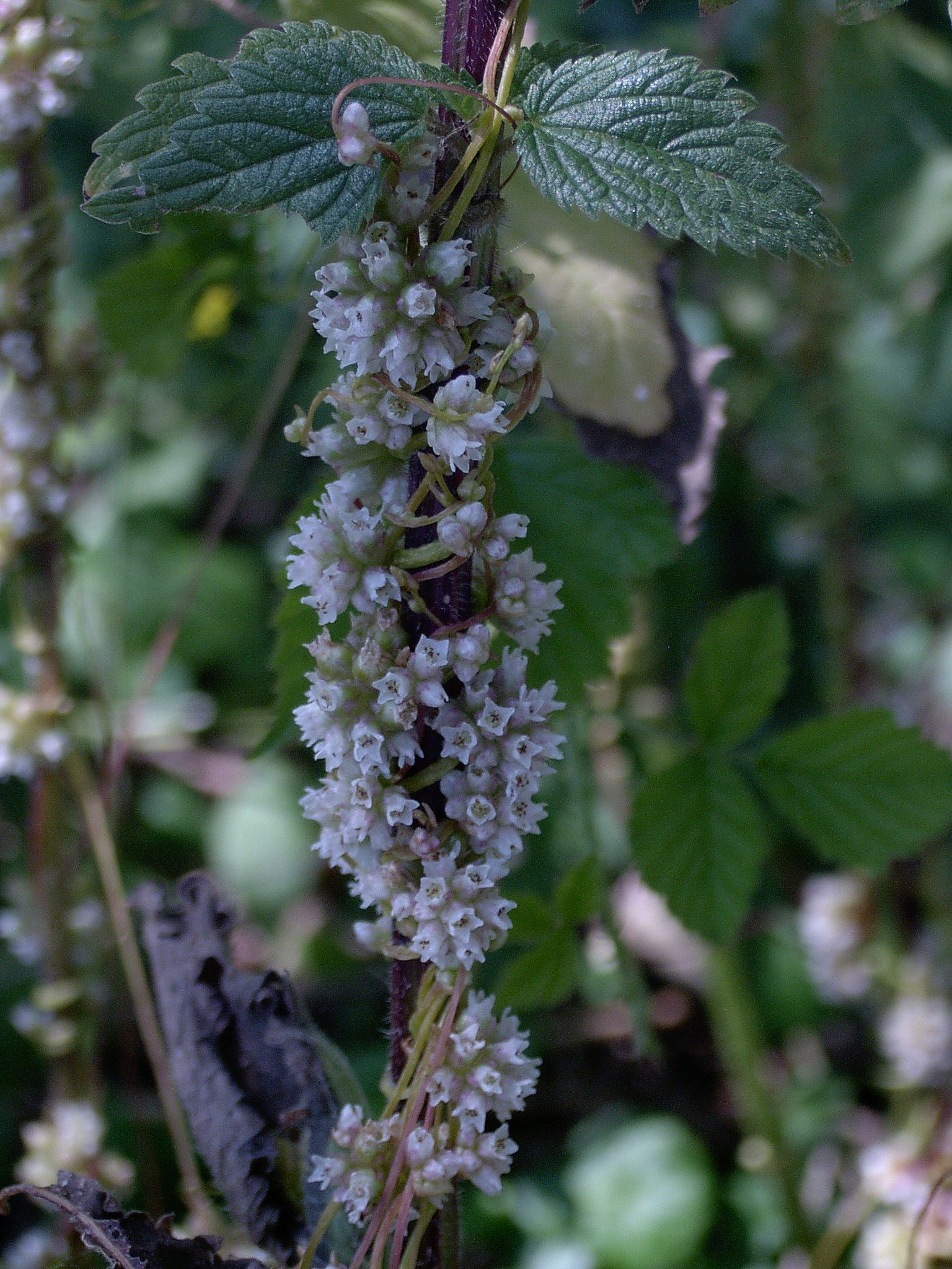 Cuscuta europaea, flowers. Kaleńsko on Odra river, NW Poland